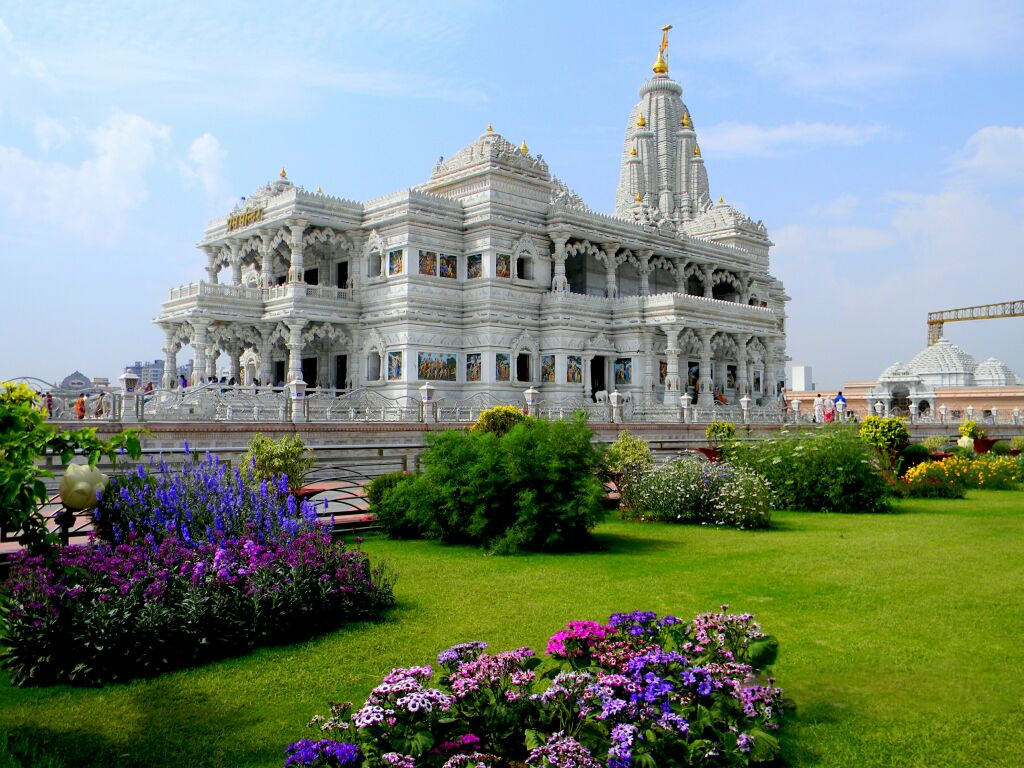 Prem Mandir Side View From Canteen.